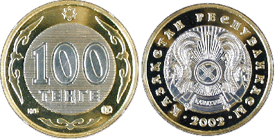 100 Tenge (2002) Diameter - 24,5 mm Thickness - 1,95 mm Weight - 6,65 gr. Lateral surface - grooved with the note - "СТО ТЕНГЕ - ЖYЗ ТЕҢГЕ" (one hundred tenge) Two-colored (compound) coin has the shape of the circle, that consists of concentrically located rings and a disk. The internal disk of the coin is made from alloy of "nickel silver" of white color, the external disk - from alloy of "nibrass" of yellow color. On the right side (averse) of the coin, in the middle against a background of the grooved circle in two-line there is an inscription "100 ТЕҢГЕ". On the circumference there are three elements of national ornament, divided on its upper part by the octagonal rosette; on the left side - by an inscription "KҰБ" ("NBK"), on the right side - by the trade mark of Kazakhstan Mint. On the circumference there is an obtrusive edging. In the middle of the back side (reverse) of the coin there is the national emblem of the Republic of Kazakhstan. In the lower part there is the date "2002", which means the year of issue of the coin. On the circumference - the legend "ҚАЗАҚСТАН РЕСПУБЛИКАСЫ" in state language. The legend and the year of issue divided by dots. On the circumference there is an obtrusive edging.